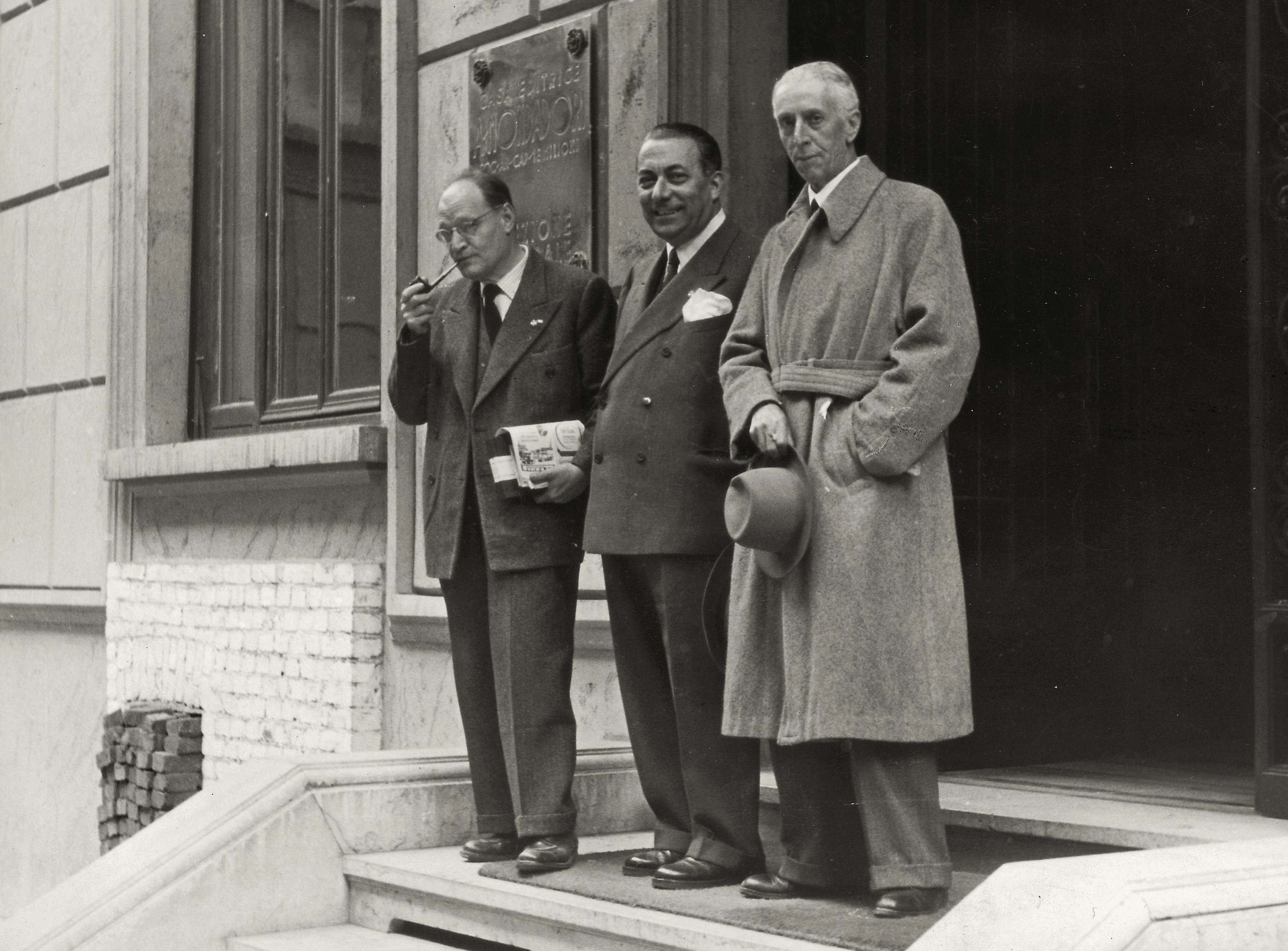 Italian poet Giuseppe Ungaretti (left) with the Italian publisher Arnoldo Mondadori (center) and the Italian writer Tom Antongini, Milan, 1940s.